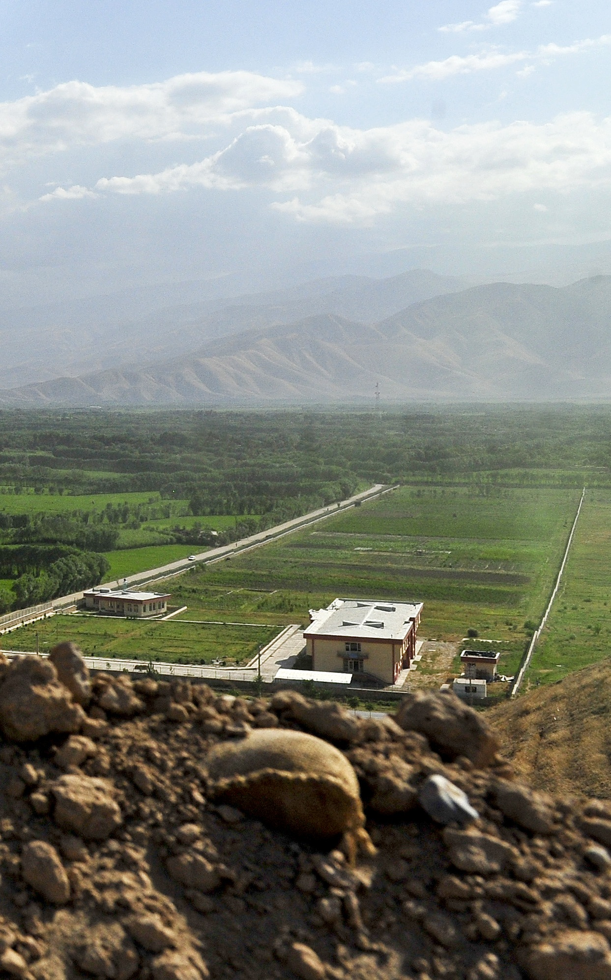 Samangan Province, Afghanistan